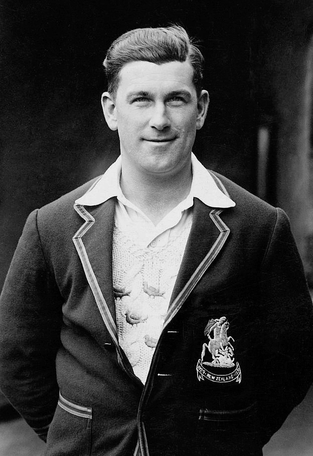 Walter 'Tich' Cornford, Sussex County cricket club, wearing his 1929 MCC England tour of New Zealand blazer, photographed circa 1933.